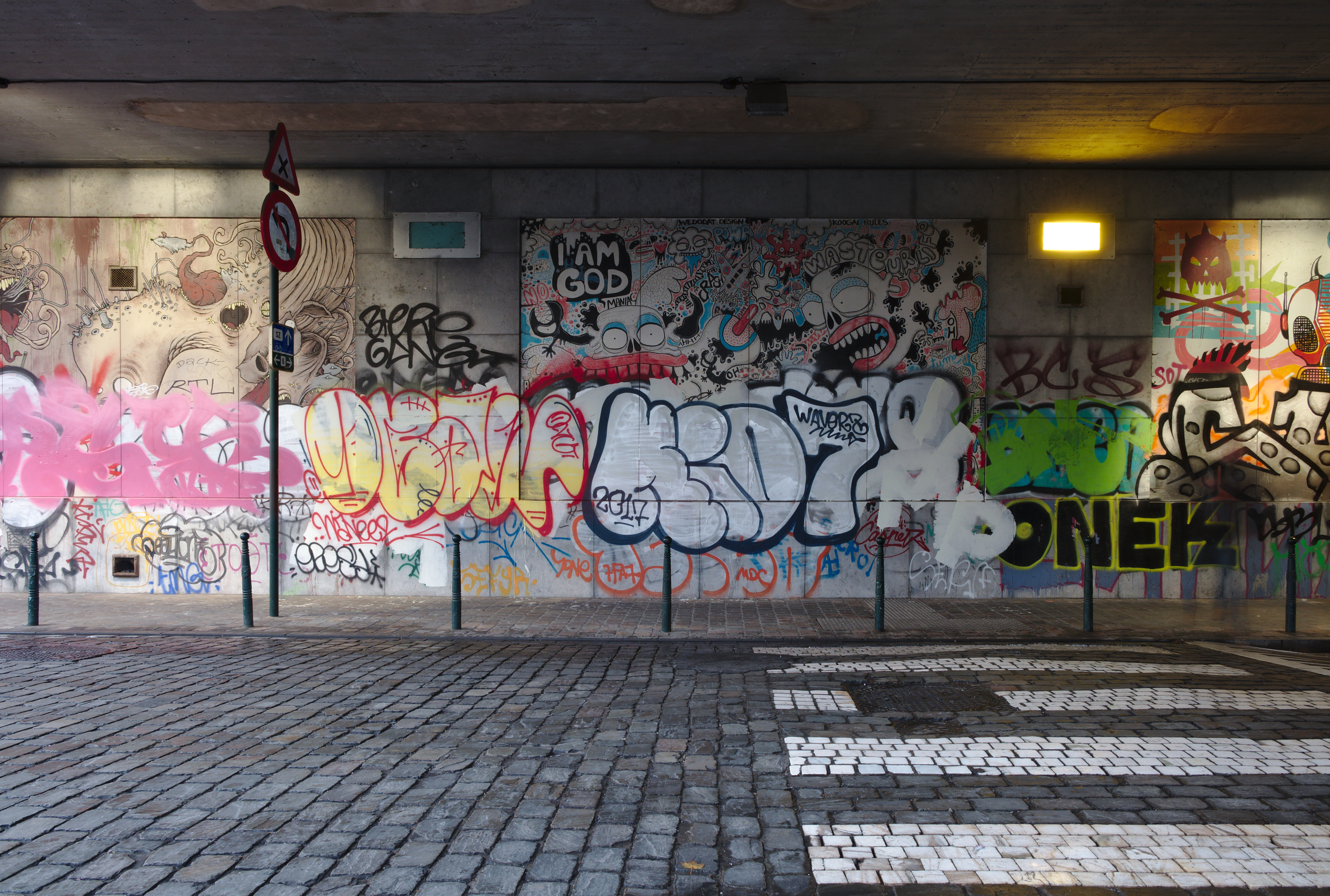 Street art in the tunnel at Rue des Brigittines under the railway (Brussels, Belgium)